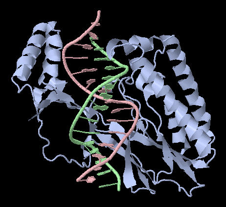 Tus-Ter complex; from protein data bank file